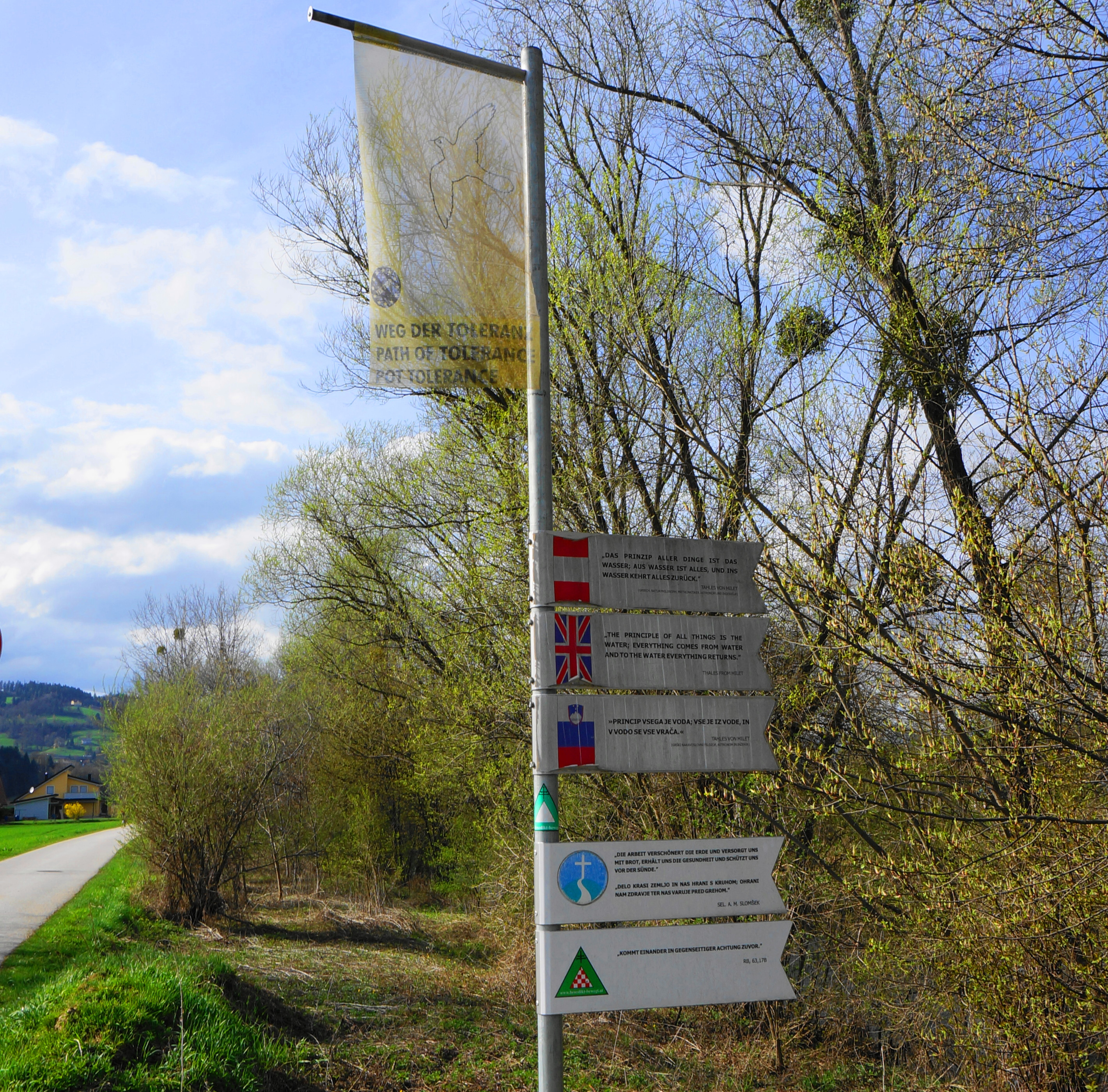 signs path of tolerance, trail to Sankt Paul im Lavanttal, Carinthia, Austria, European Union